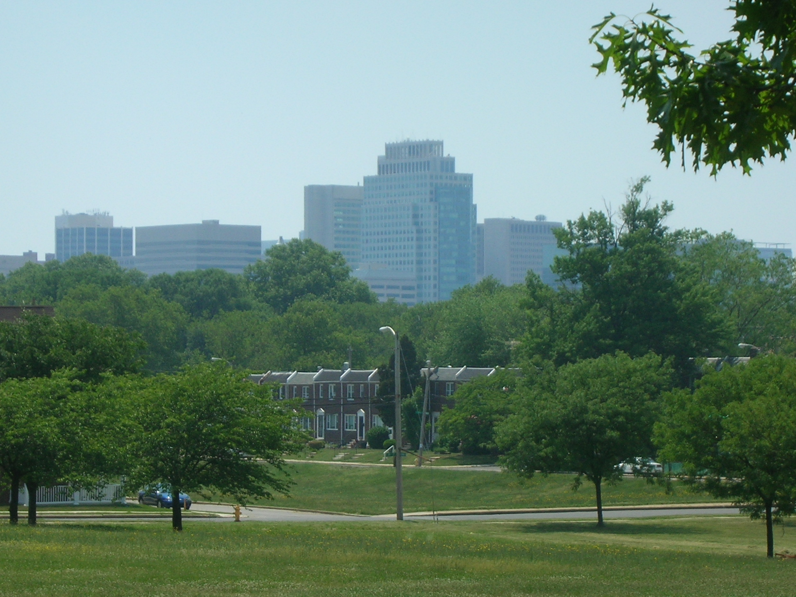 Wilmington, Delaware as seen from E 22nd Street